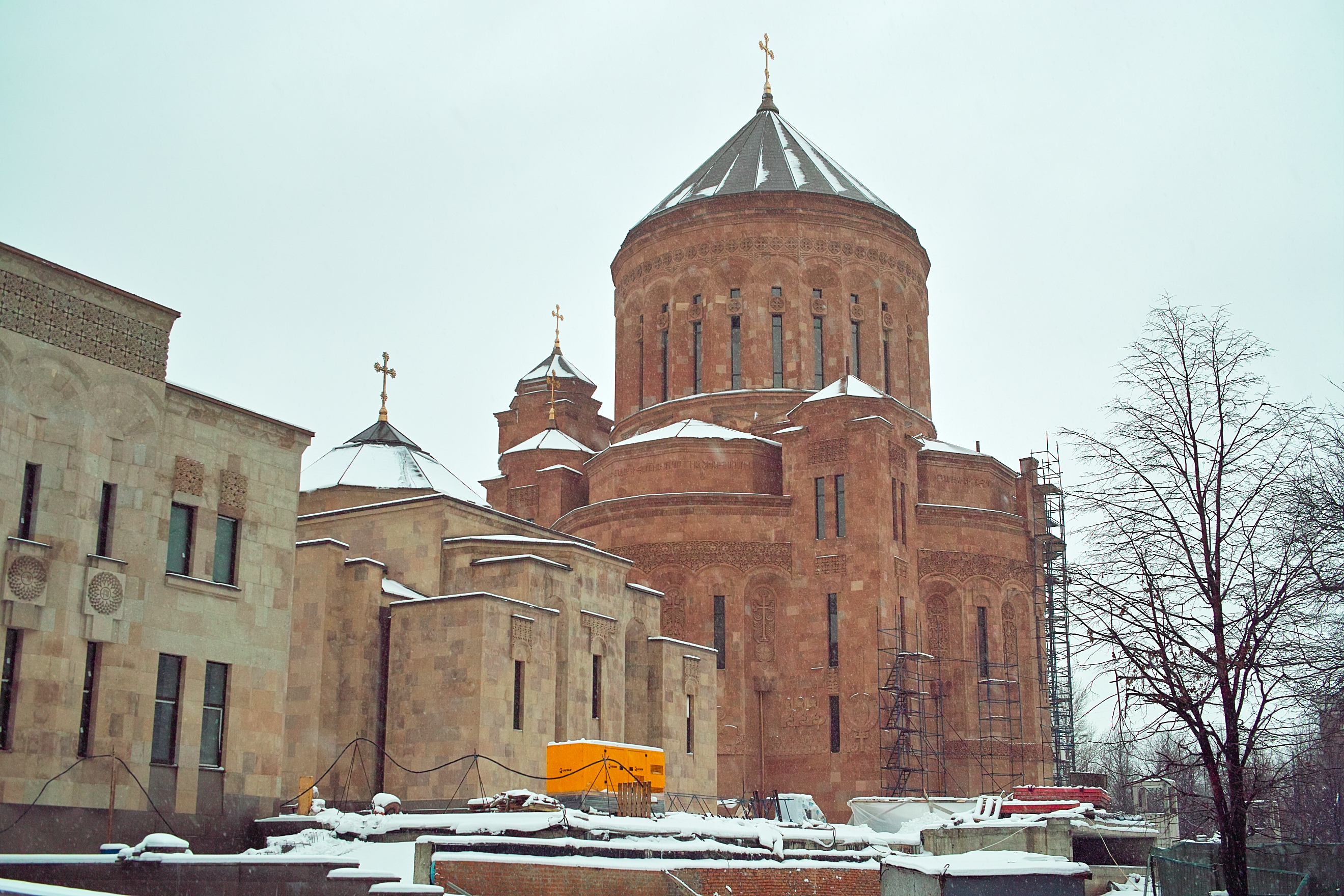 The Armenian Cathedral of the Holy Cross in Moscow. Partial view of the under-construction temple complex, January 2012